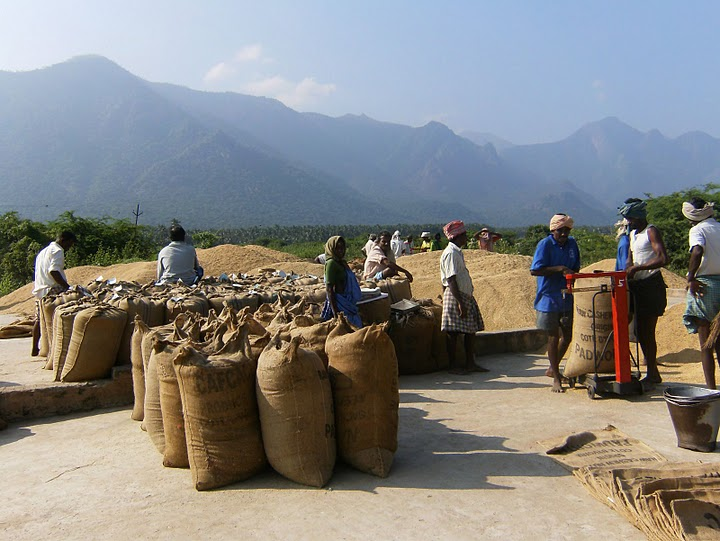 Weighing in progress at the thrashing floor after the paddy harvest..see weighed sacks of paddy in the foreground